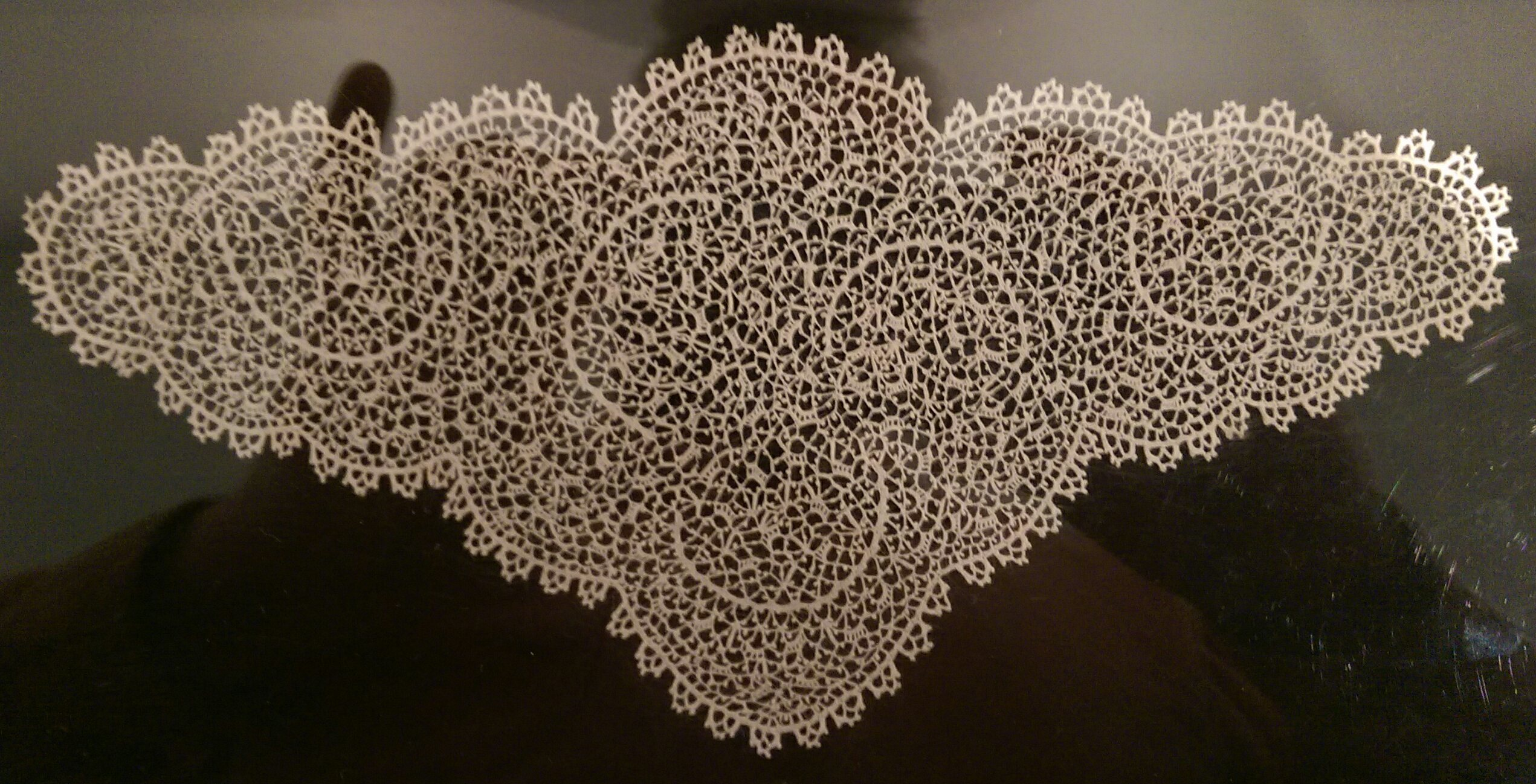 19th century cotton crochet from Orvieto, Unbria, Italy on display at the Berkeley Art Museum Pacific Film Archive. Photo by Jim Heaphy.